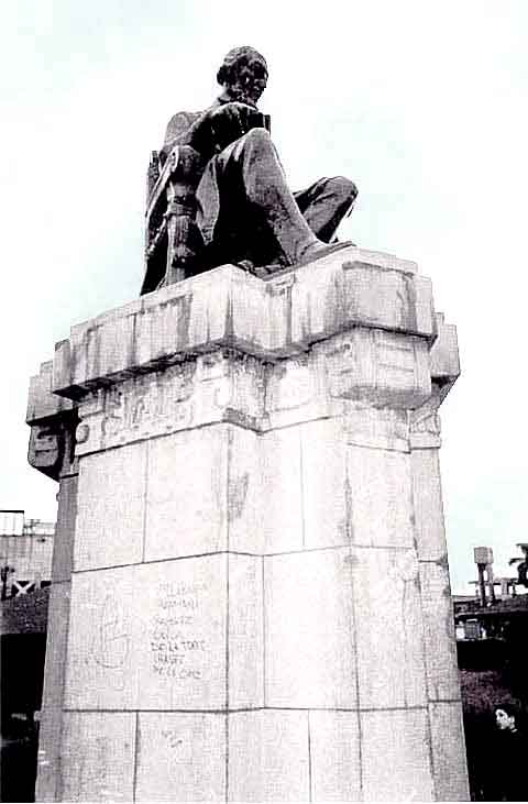 photo of Lima's monument